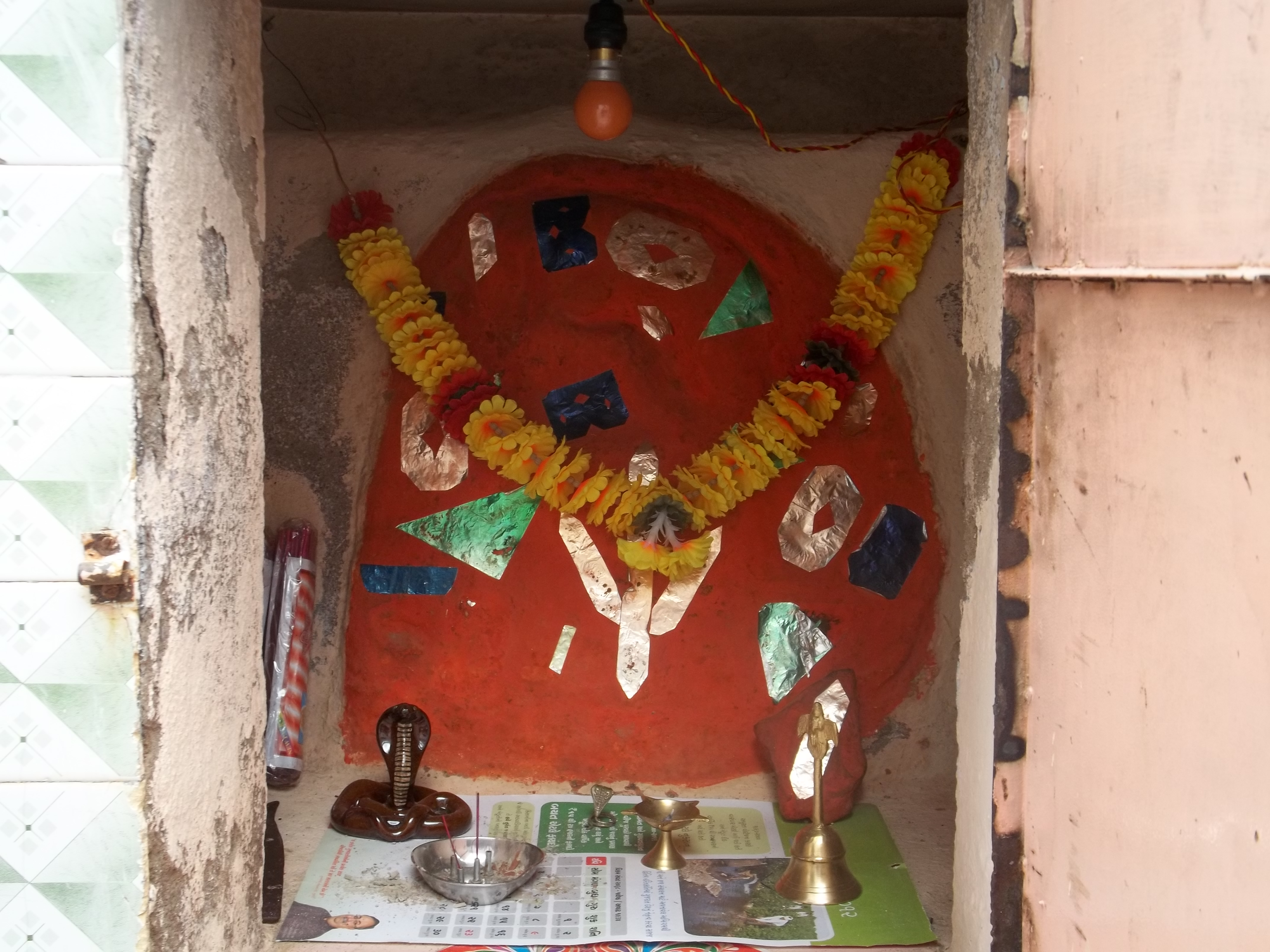 Veer Pabuji Rathod Khakhrechi